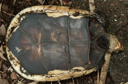 Cuora flavomarginata evelynae Female by Torsten Blanck